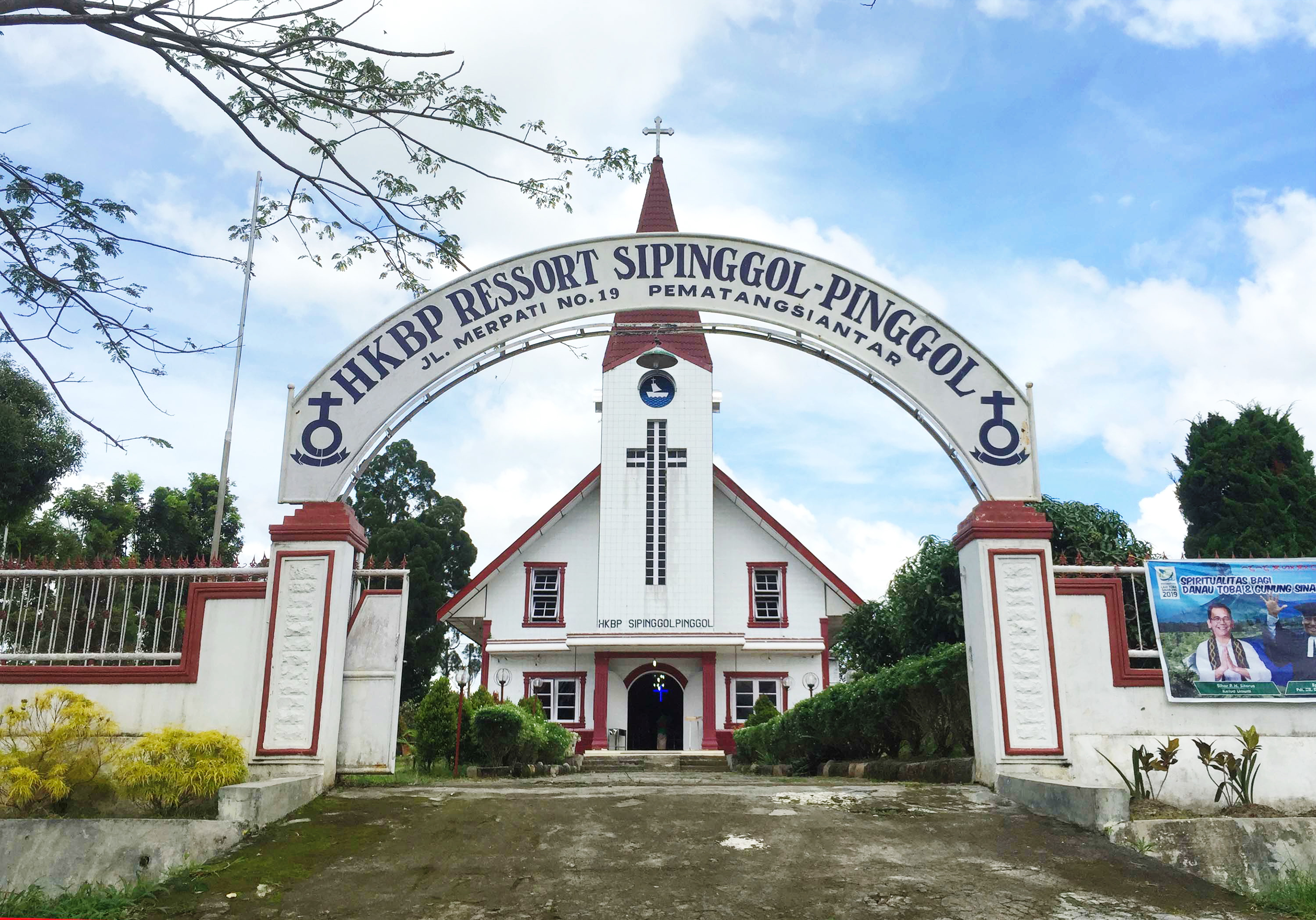 HKBP Sipinggolpinggol, Church in Sipinggolpinggol, Siantar Barat, Pematangsiantar.